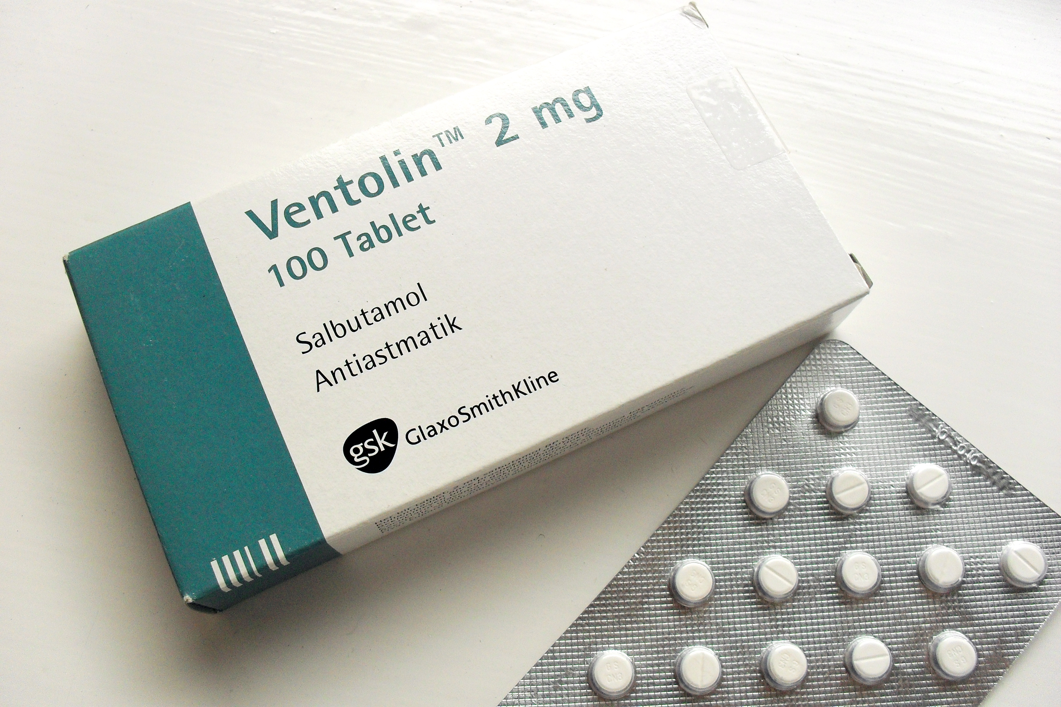 Ventolin 2mg tablets